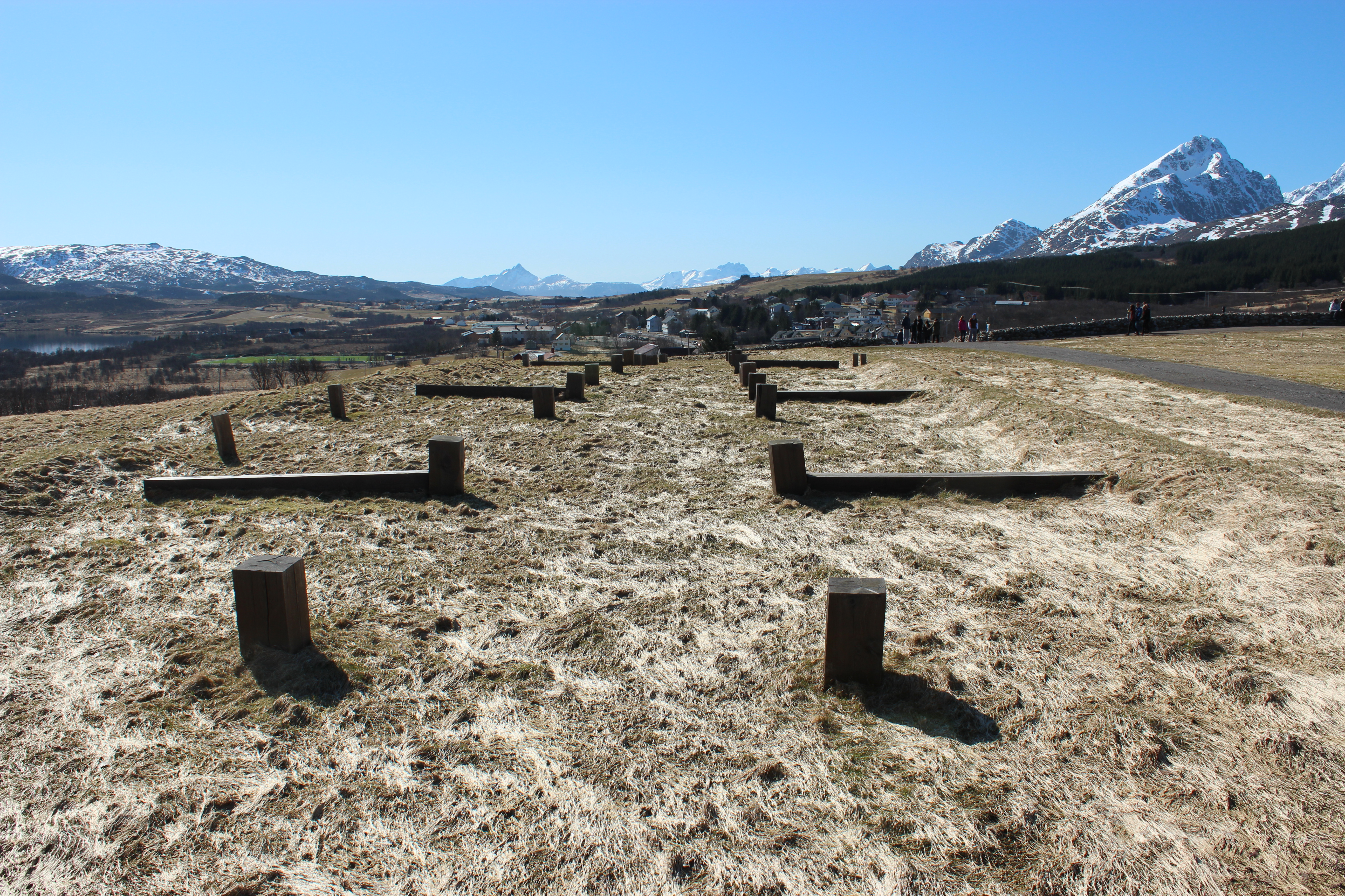 The pole indicates where the poles were found during the excavations of the original viking house at Lofotr Vikingmuseum